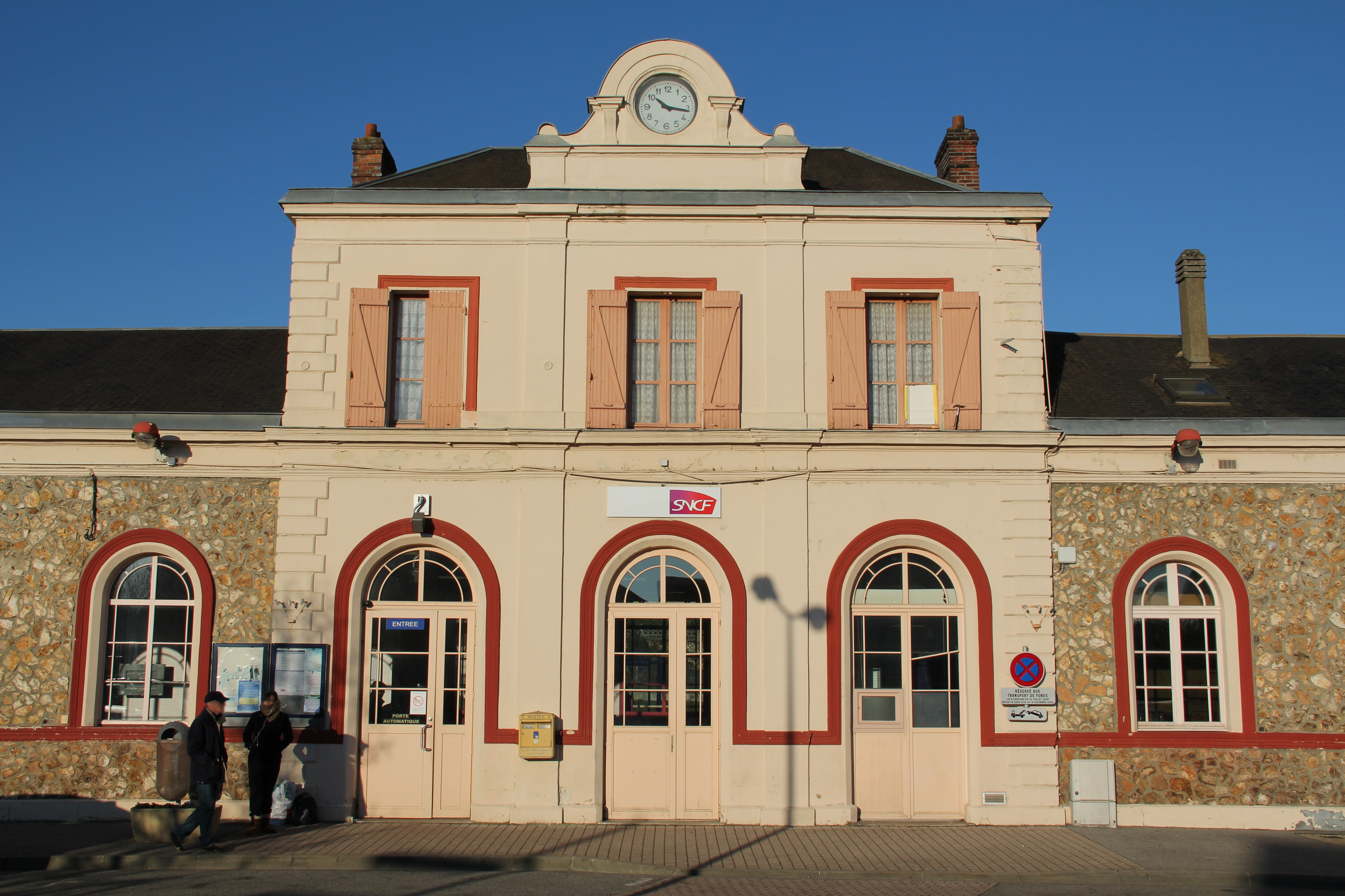 The train station of Nogent-le-Rotrou, Eure-et-Loir, France.